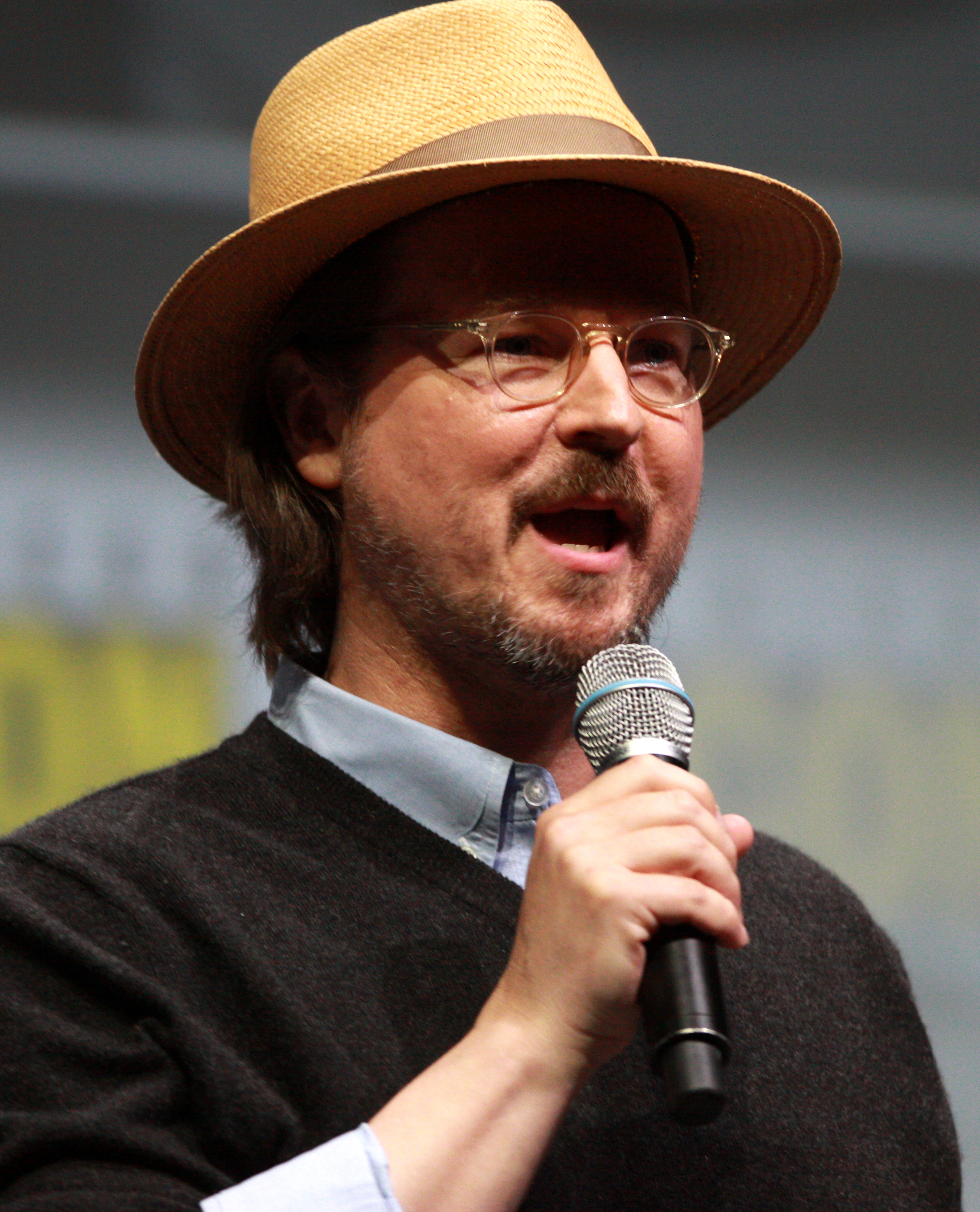 Matt Reeves at the 2013 San Diego Comic Con International in San Diego, California.